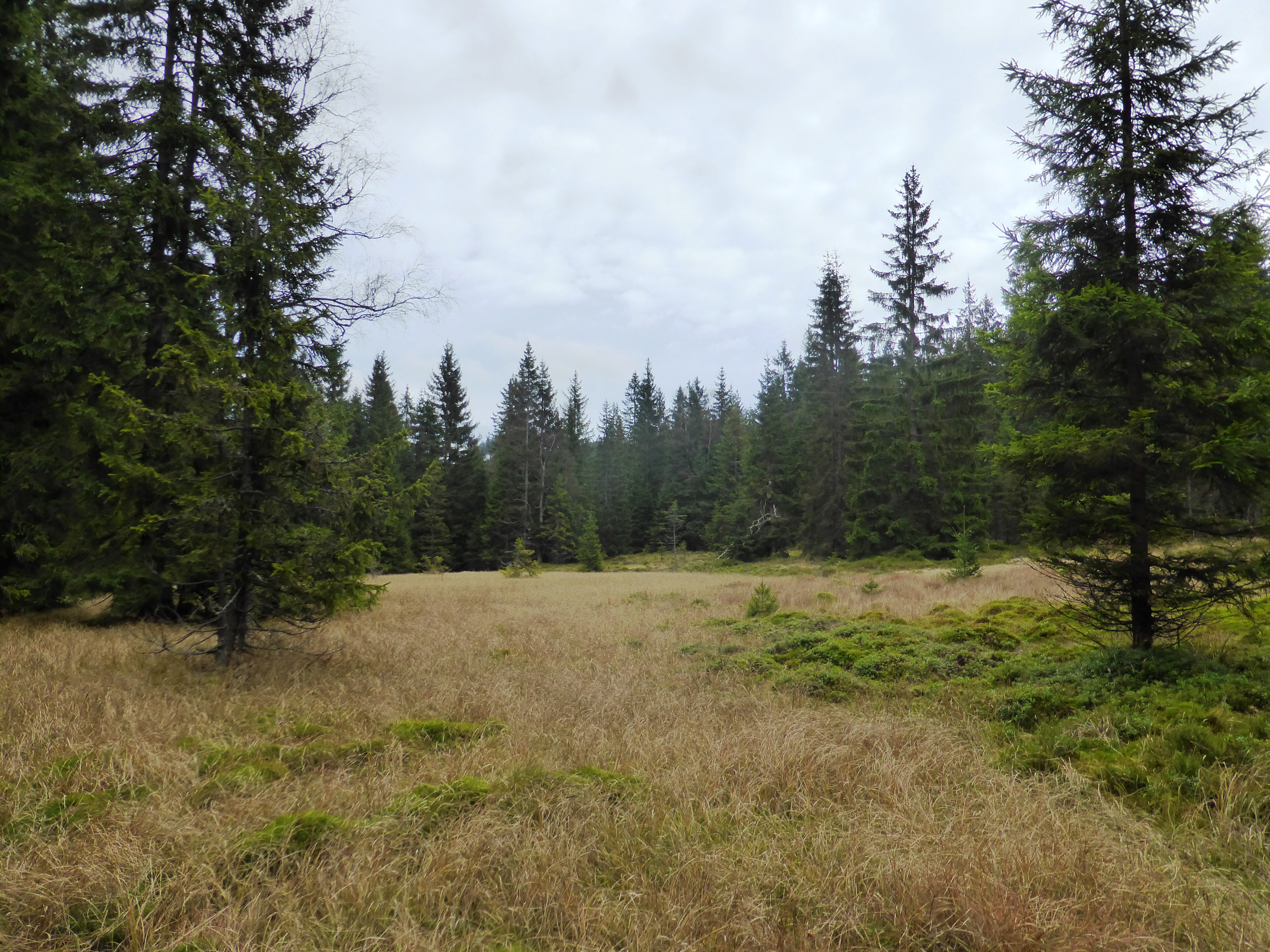 Společenstvo rašelinné podmáčené louky. Zástupci především rodu Carex.